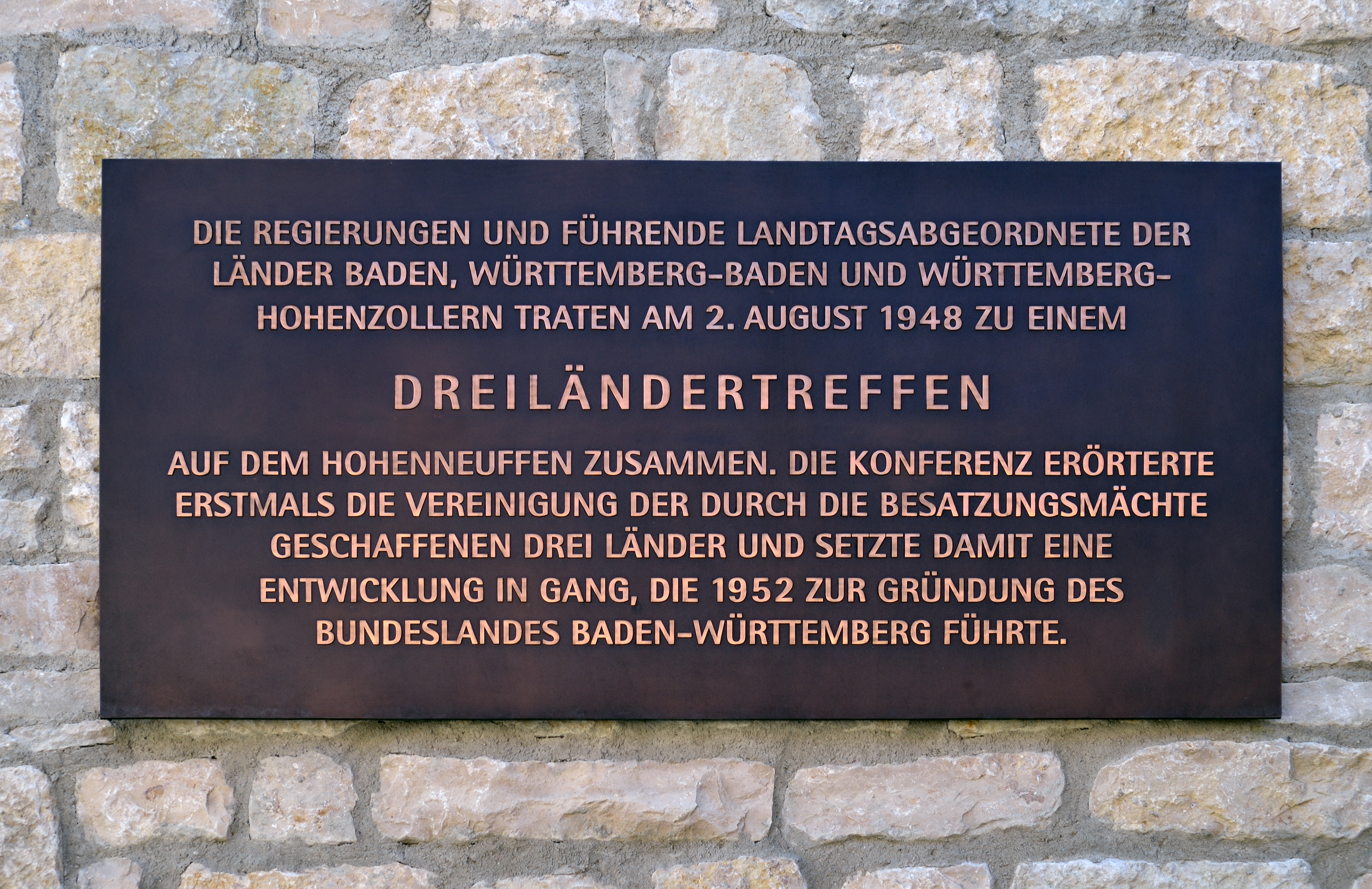 Memorial sign for a meeting at Hohenneuffen Castle on August 2, 1948.